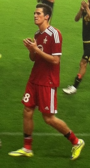 Alexei Coşelev (FC Sheriff)